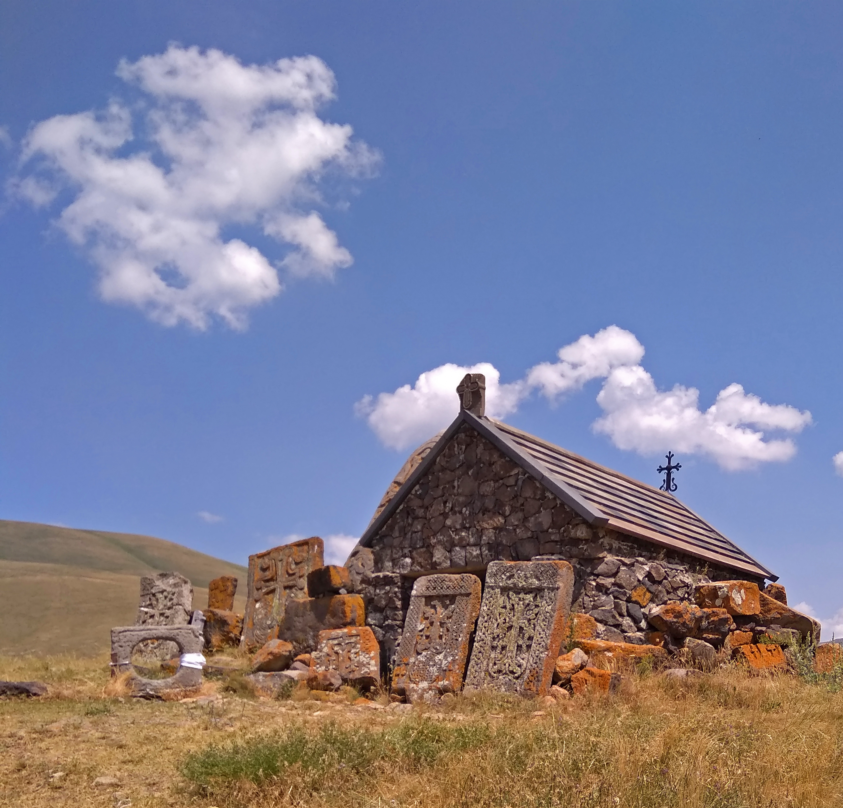 Saint Sargis Chapel near village Tsaghkunk, Gegharkunik Province of Armenia.